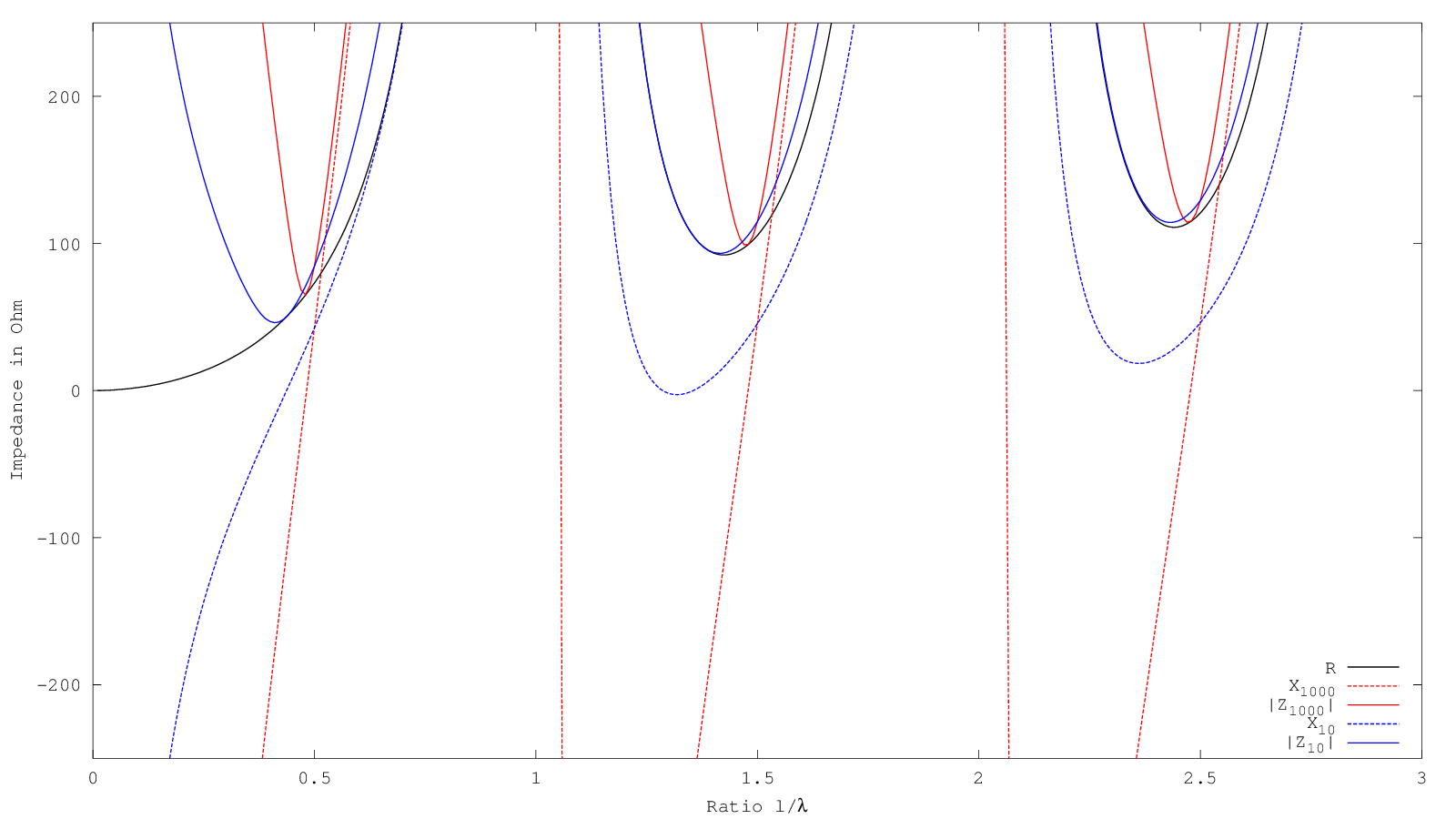 Impedance of a dipol antenna in relation to length l and diameter d. Where as the given ratios are l d = 1000 {\displaystyle {\frac {l}{d =1000} and l d = 10 {\displaystyle {\frac {l}{d =10} .